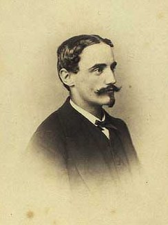 Christian Rosenkilde Treschow (1842-1905), Danish estate owner